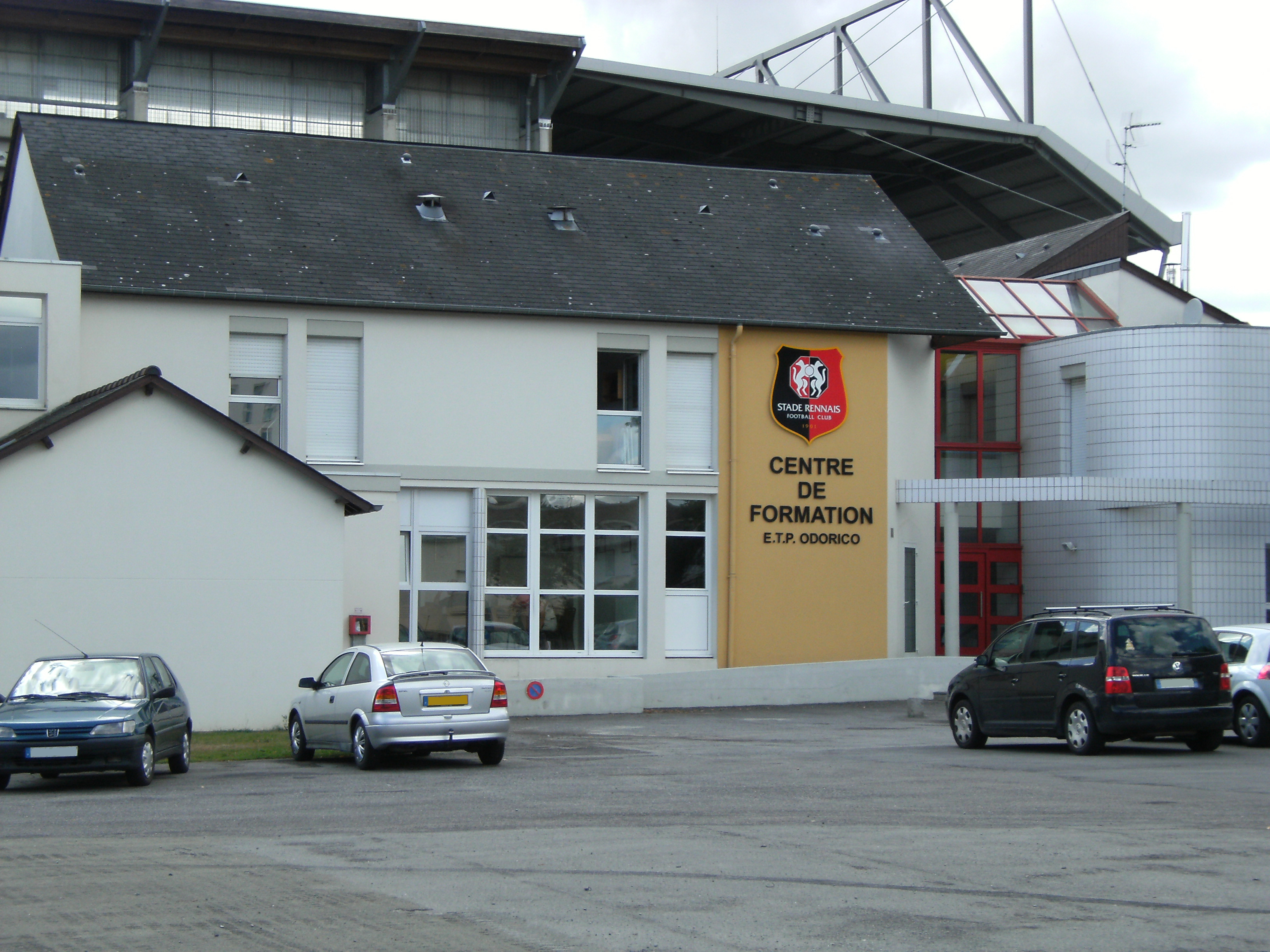 École Technique Privée Odorico (Private Technical School Odorico) : Stade rennais FC Academy